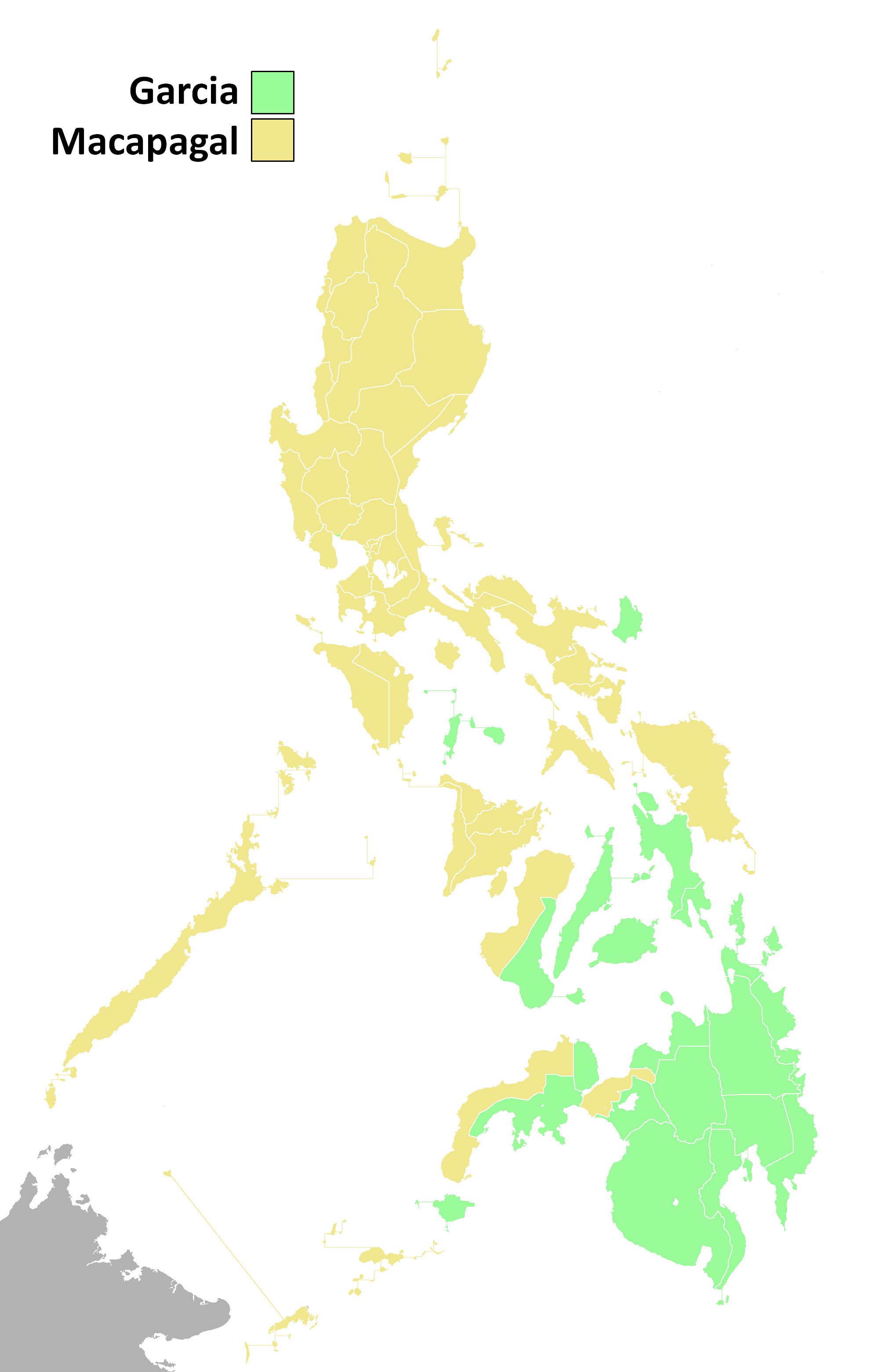 Results of the Philippine presidential election: shades refer to which candidate won a plurality in each province.